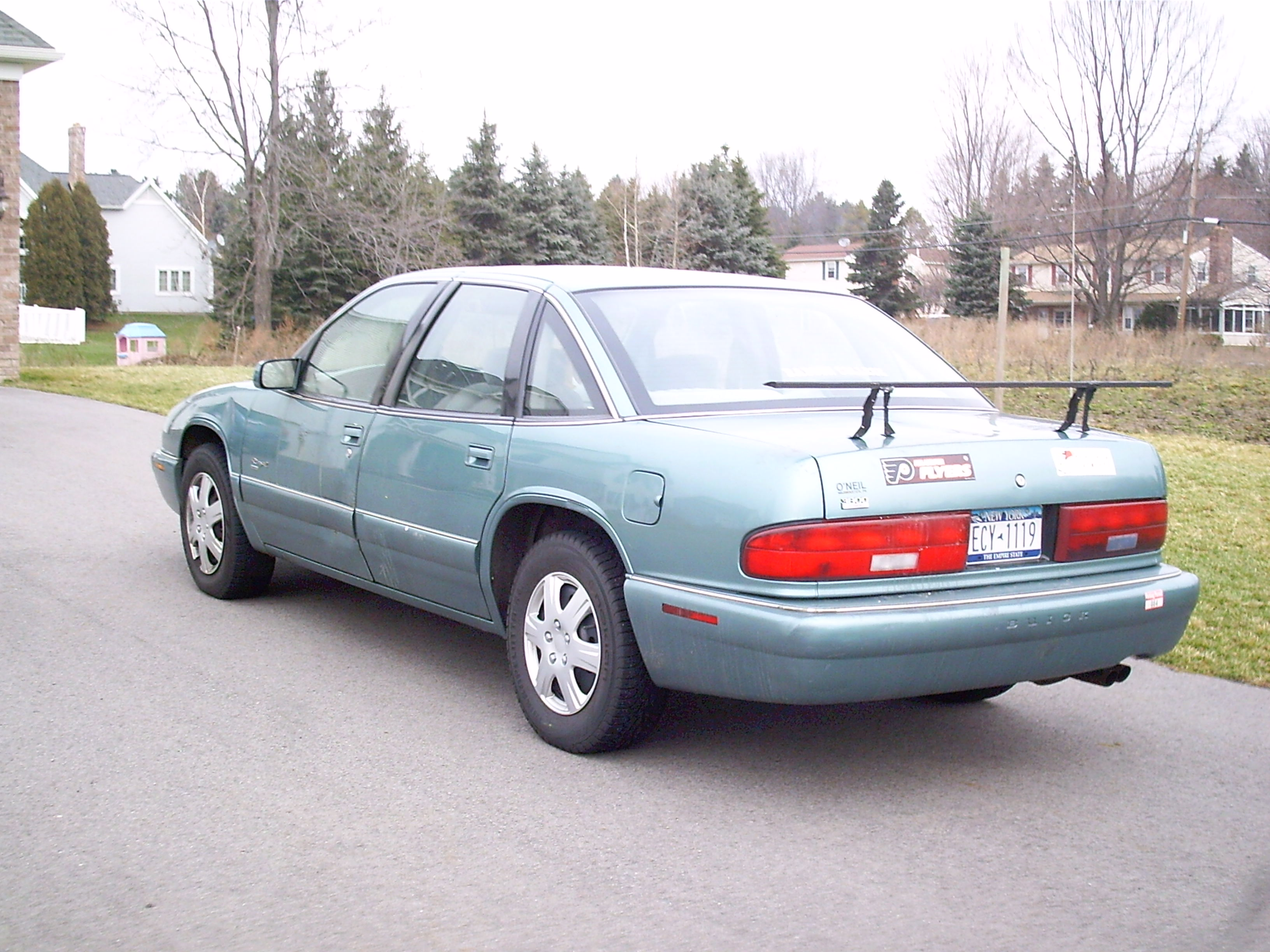 3rd Best car ever.